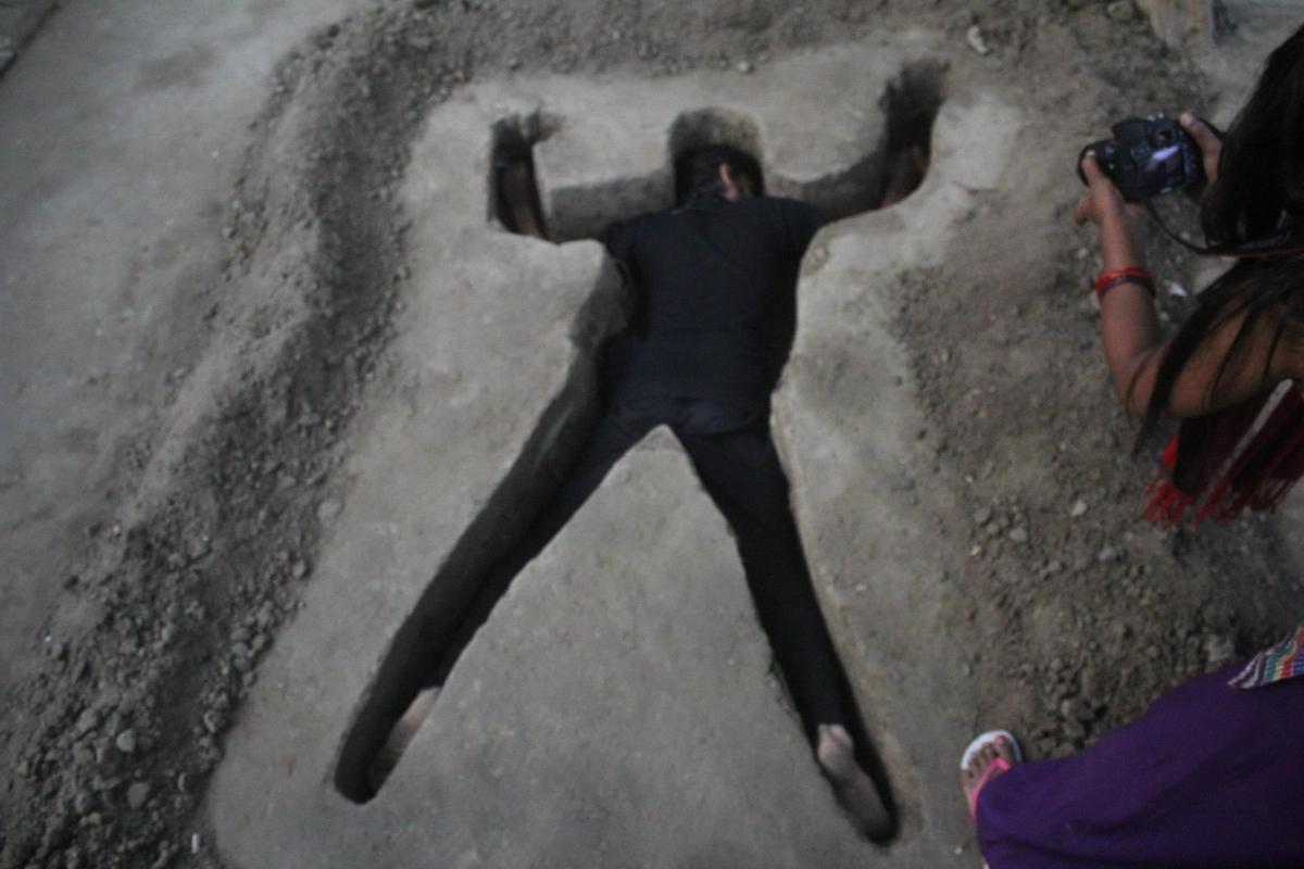 Annual Crack International Art Camp in Rahimpur, Kushtia, Bangladesh, 2014.